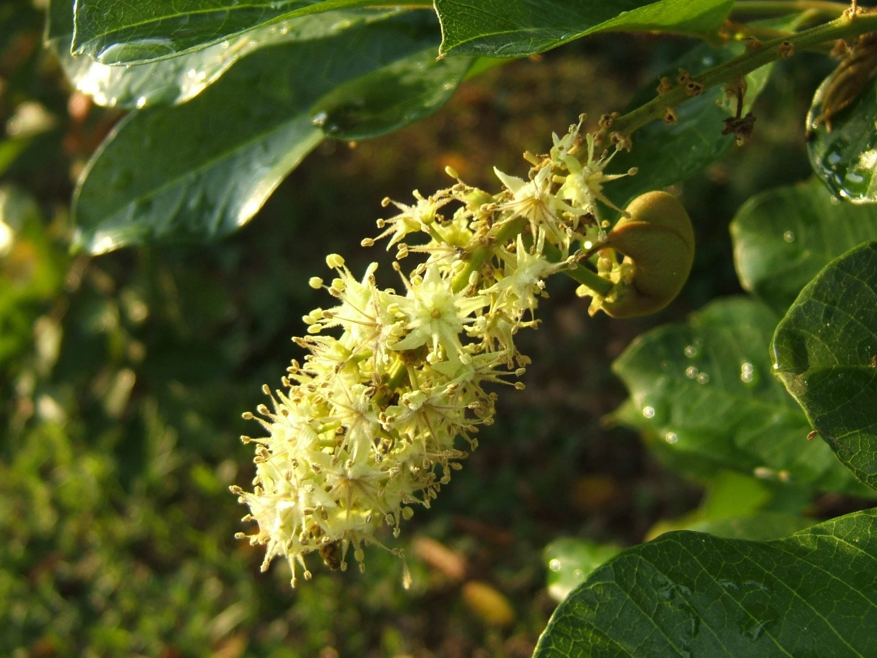 Flower for Ackee Plant Blighia sapida